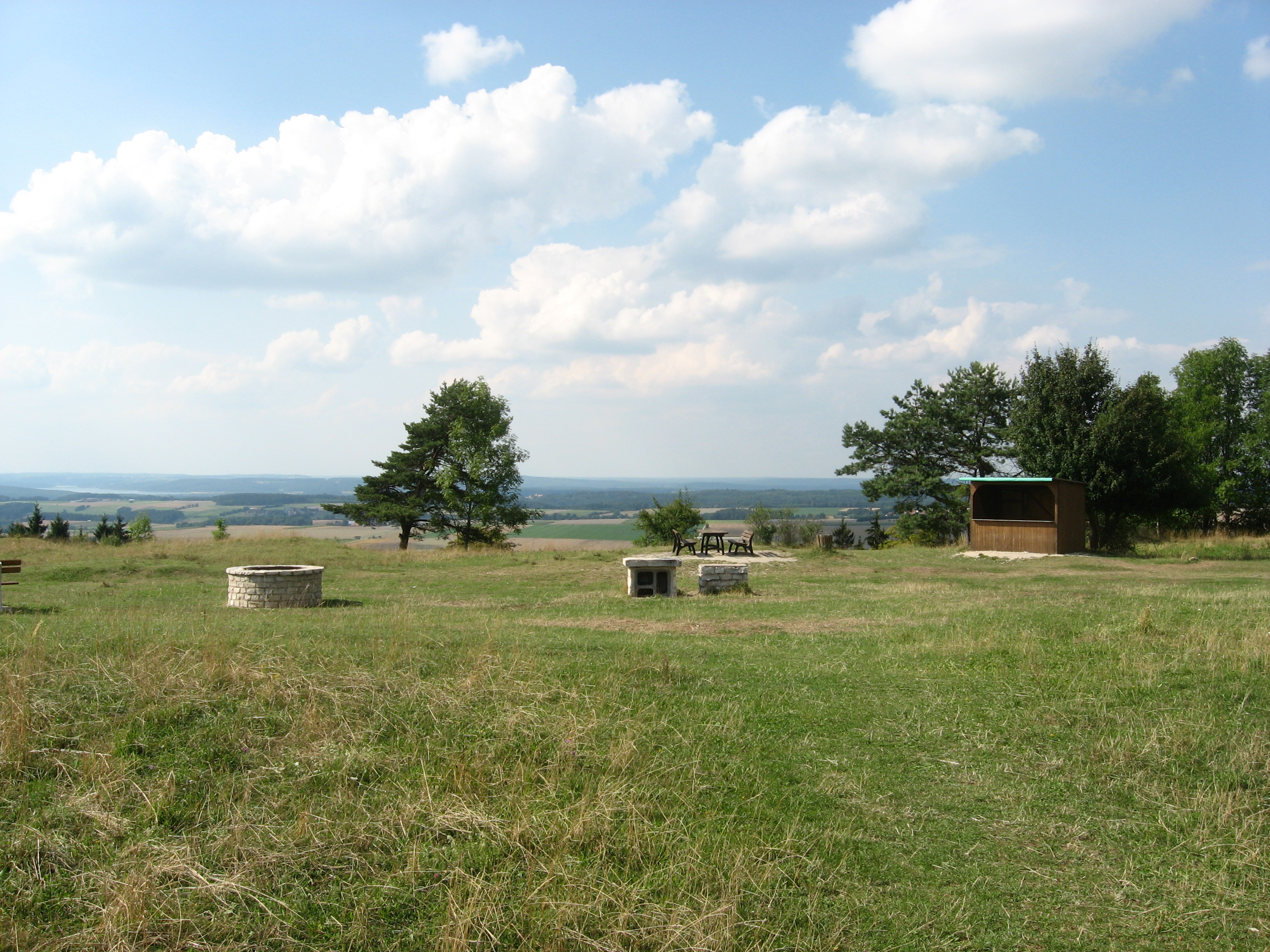 Viewpoint "Steinschütt" near Kaltenbuch, Bayaria, Germany